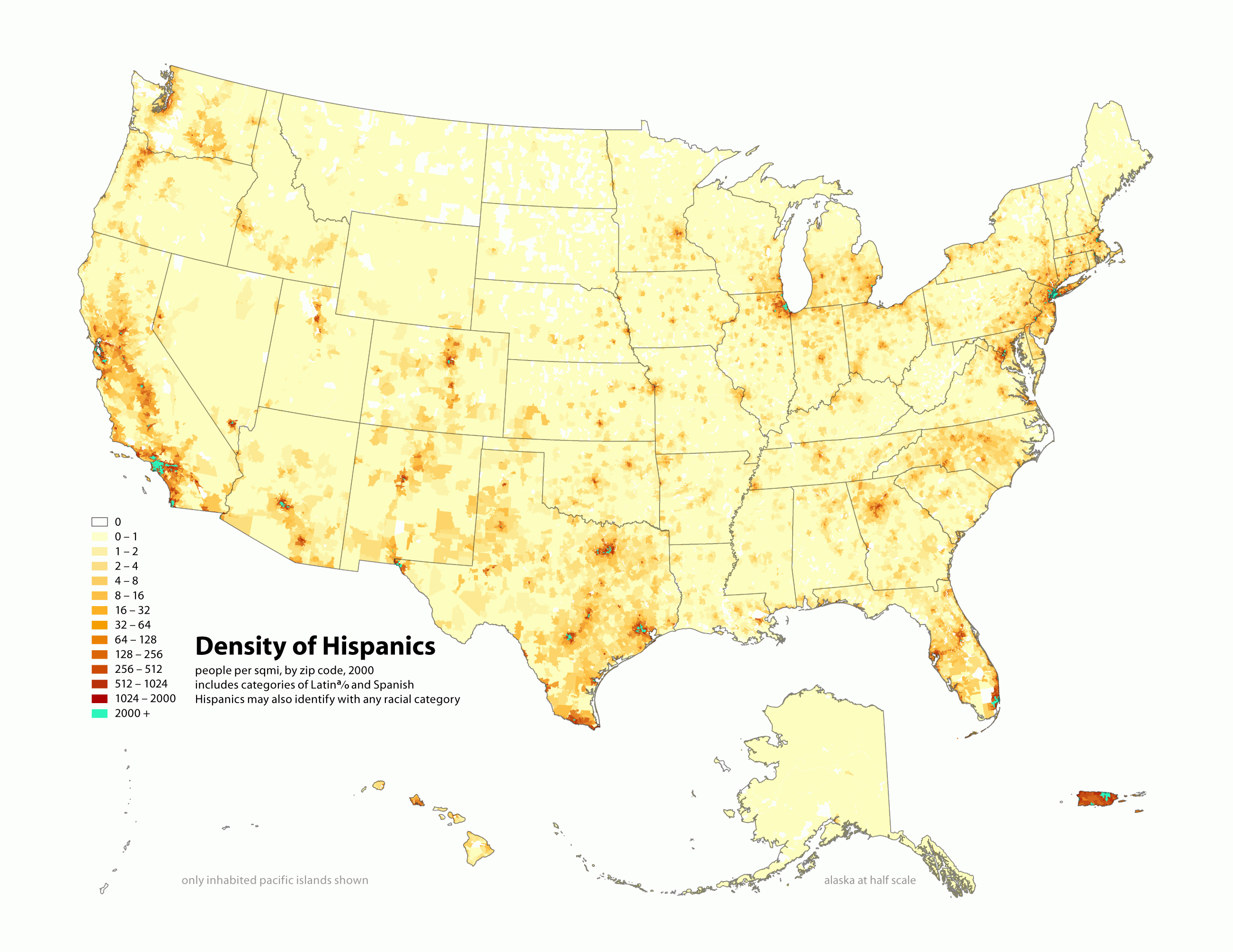 Map of contiguous US, showing density of self-reported "Hispanic" population, in persons per square mile, by census tract, 2000. Data source: US Census.